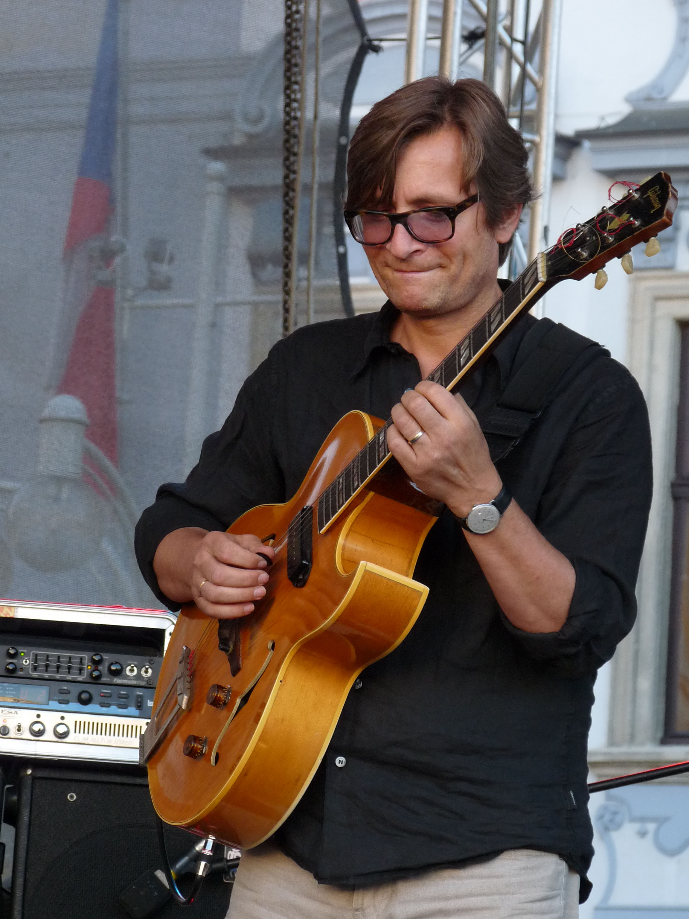 Rudy Linka playing at Bohemia Jazz Fest in České Budějovice, Czech Republic 2009